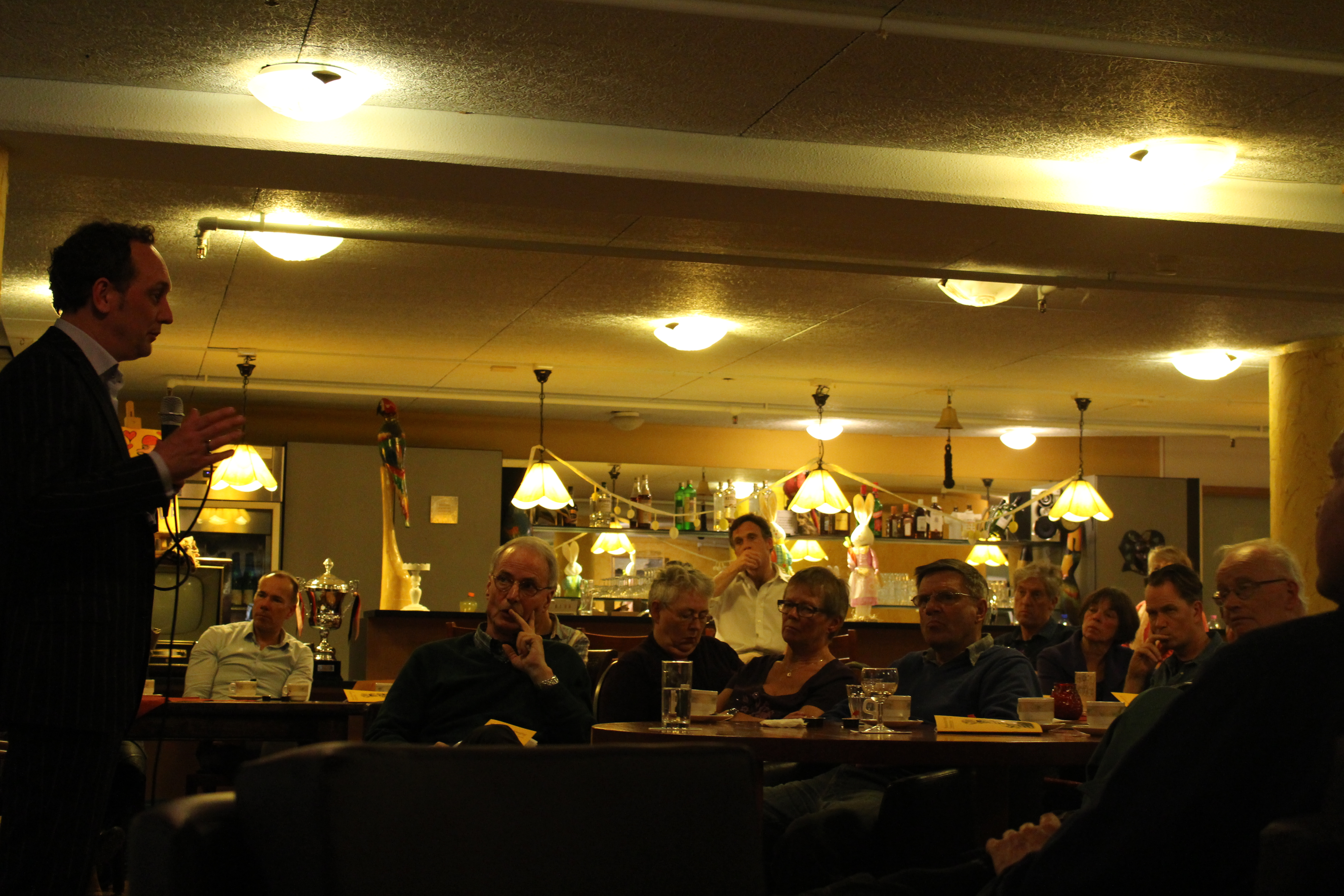 Ruard Ganzevoort speaking to Humanistisch Verbond in Rotterdam